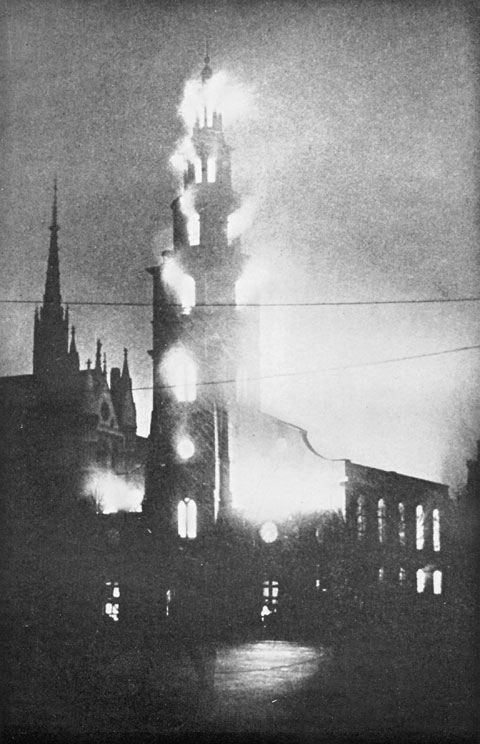 Photograph of St Clement Danes burning during the Blitz on 10 May 1941.